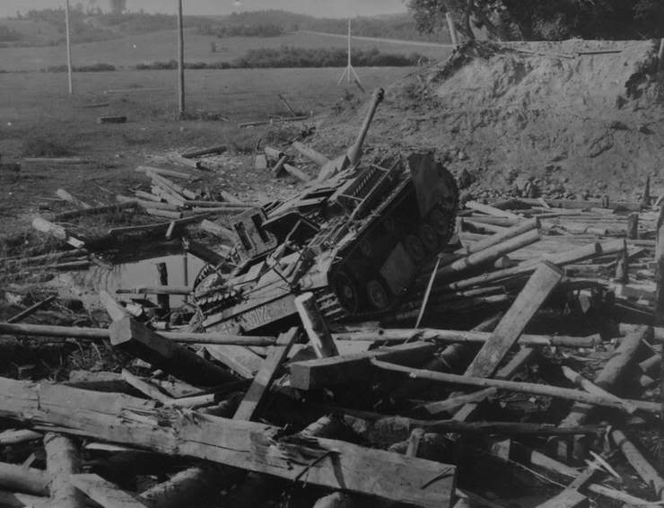 StuG destroyed on the bridge through Basya river (Mogilev Oblast). 22. till 28. June 1944.